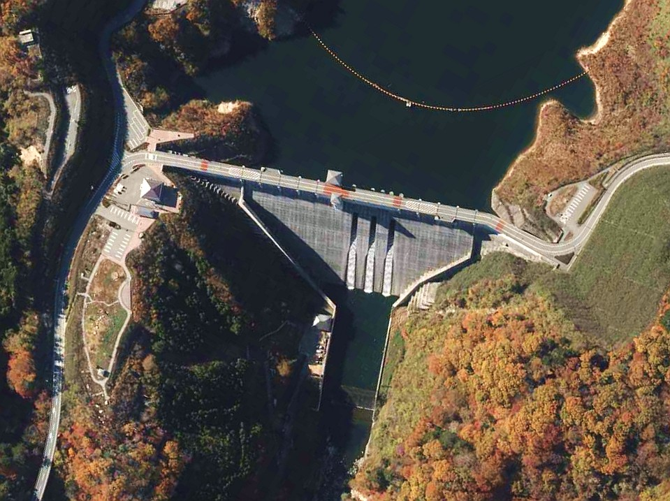 Kido Dam.